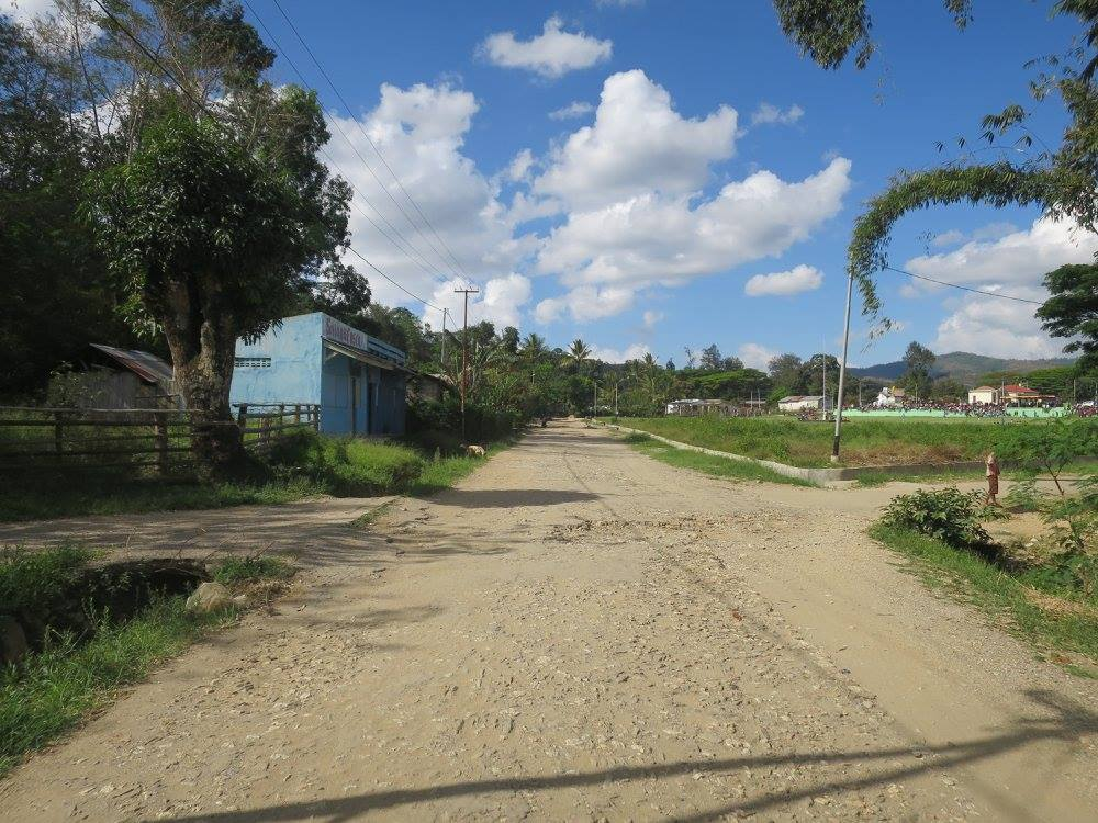 Close to the church of Aileu